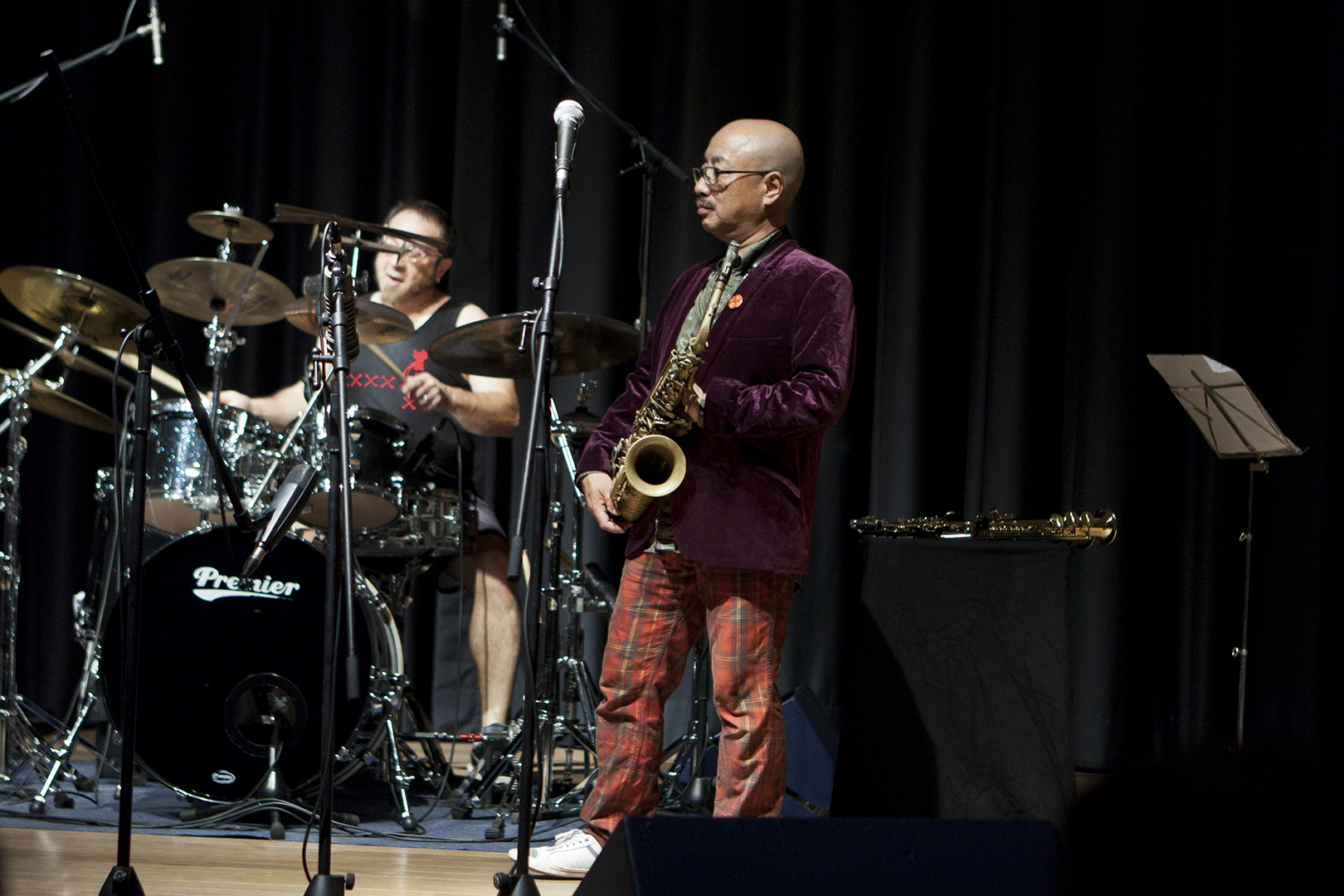 japaniese jazz saxophon player Kazutoki Umezu at japanese institute Cologne, Germany